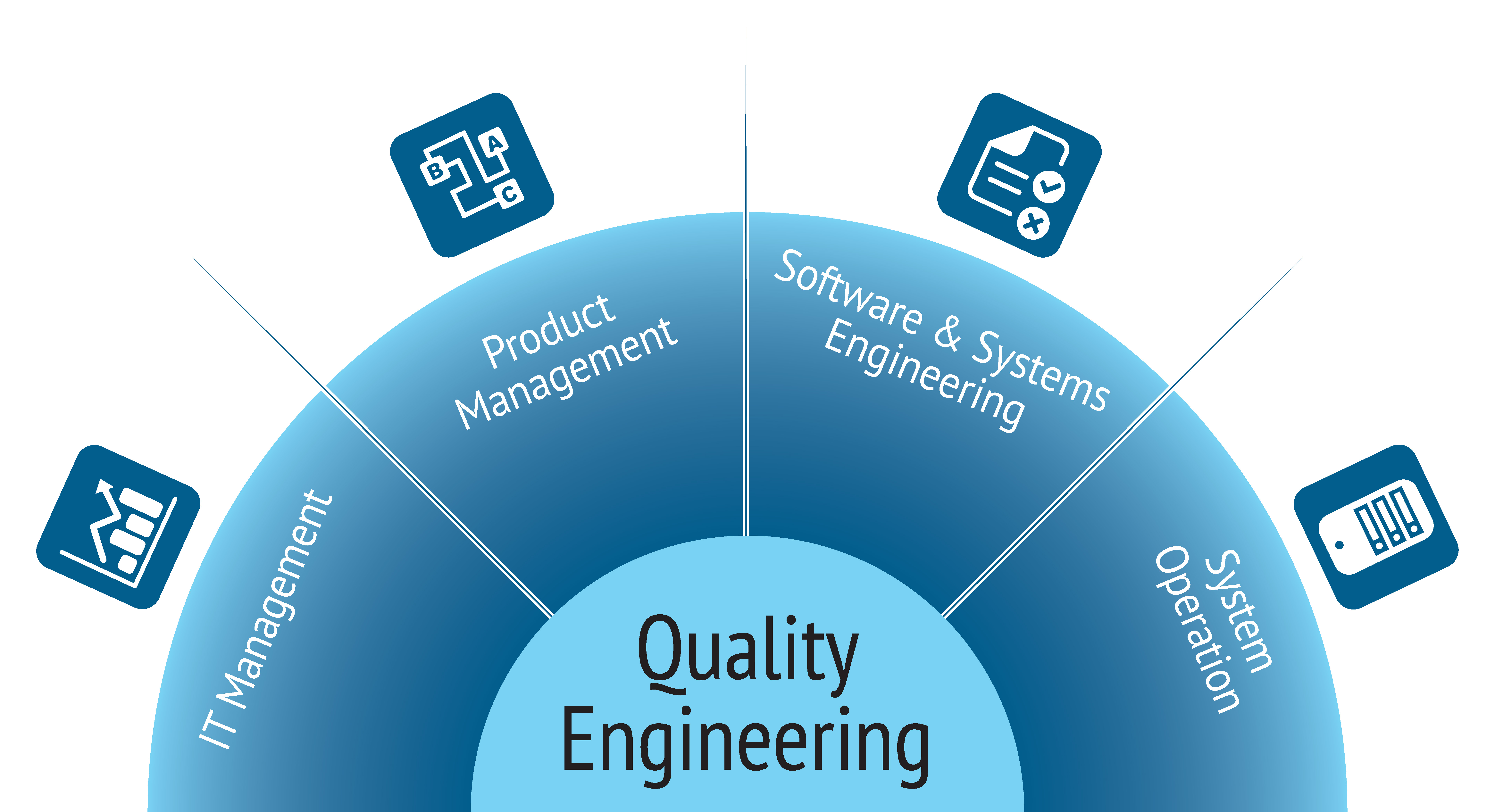 Quality Engineering refers to the management, creation, operation and development of IT systems and enterprise architectures with the high quality standards.